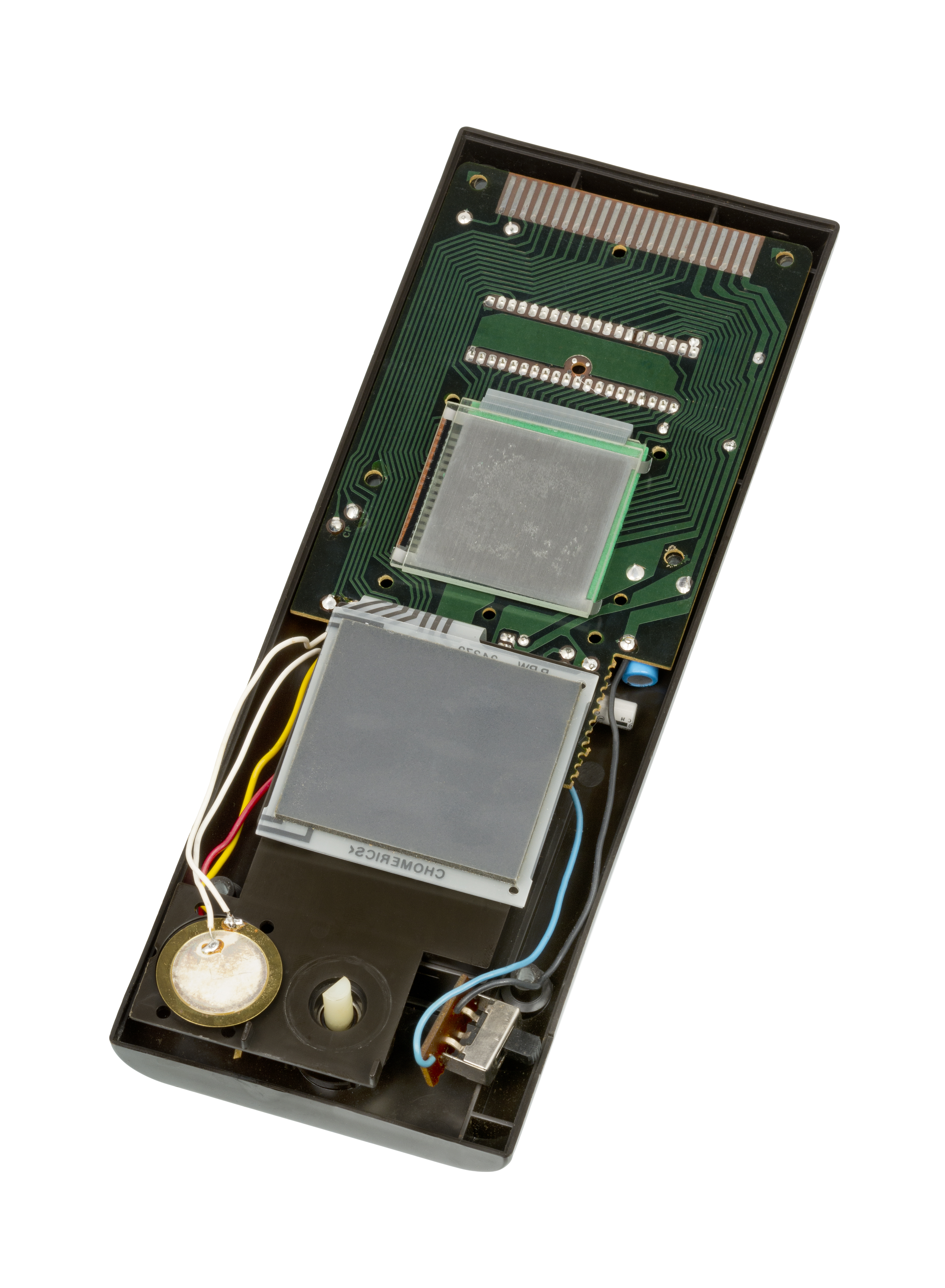 The Milton Bradley Microvision with the front casing and LCD cover removed. The Microvision was the first handheld gaming console released in 1979. Built around a 16x16 LCD screen, a grid of touch controls and a paddle, the Microvision could play very simple games. These games came on interchangeable face plates that stored the main processor and custom overlays. The system's limitations lead to little support after the initial launch, and the Microvision was discontinued by 1981.